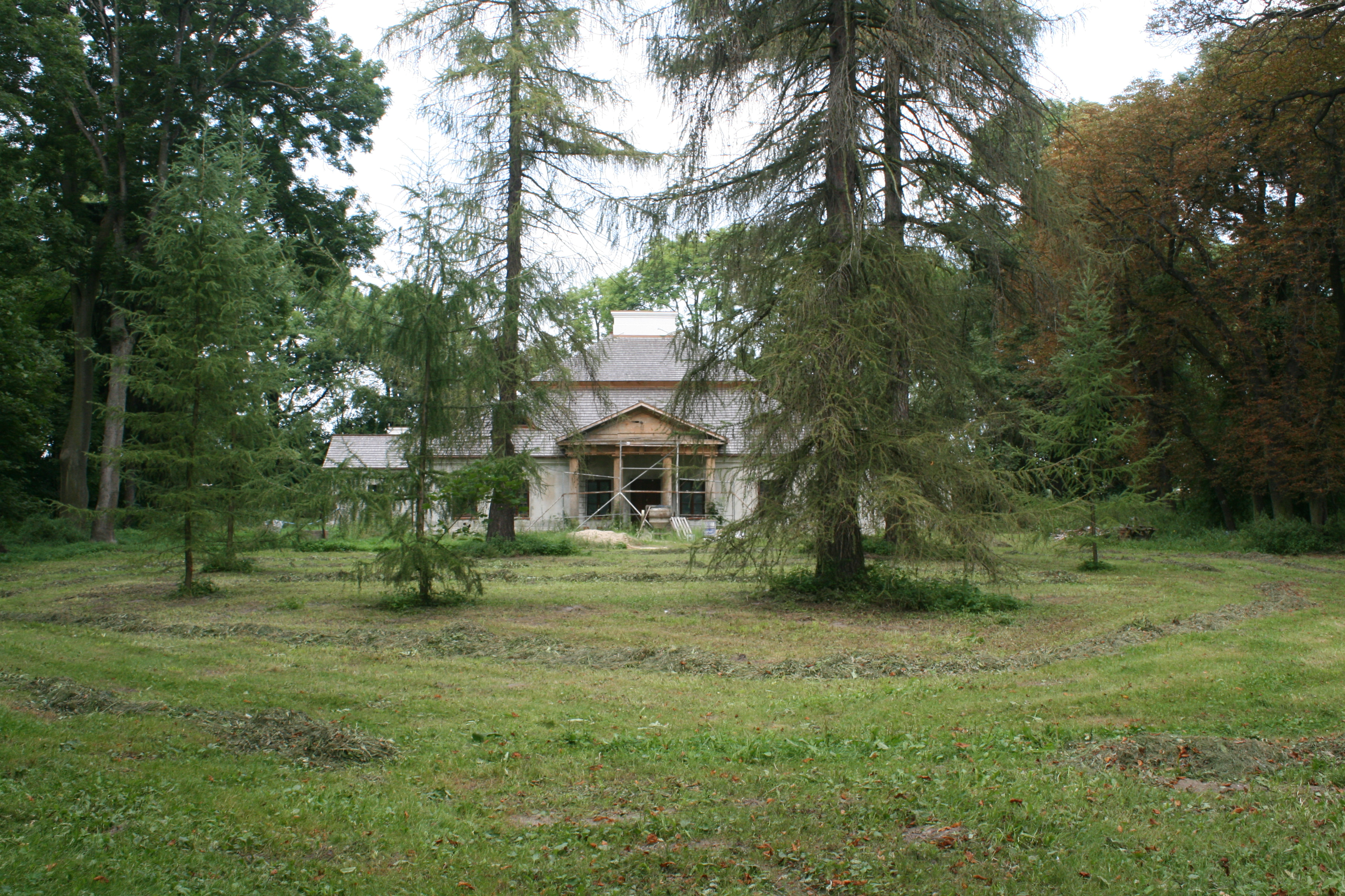 Manor house in Krupe, Poland